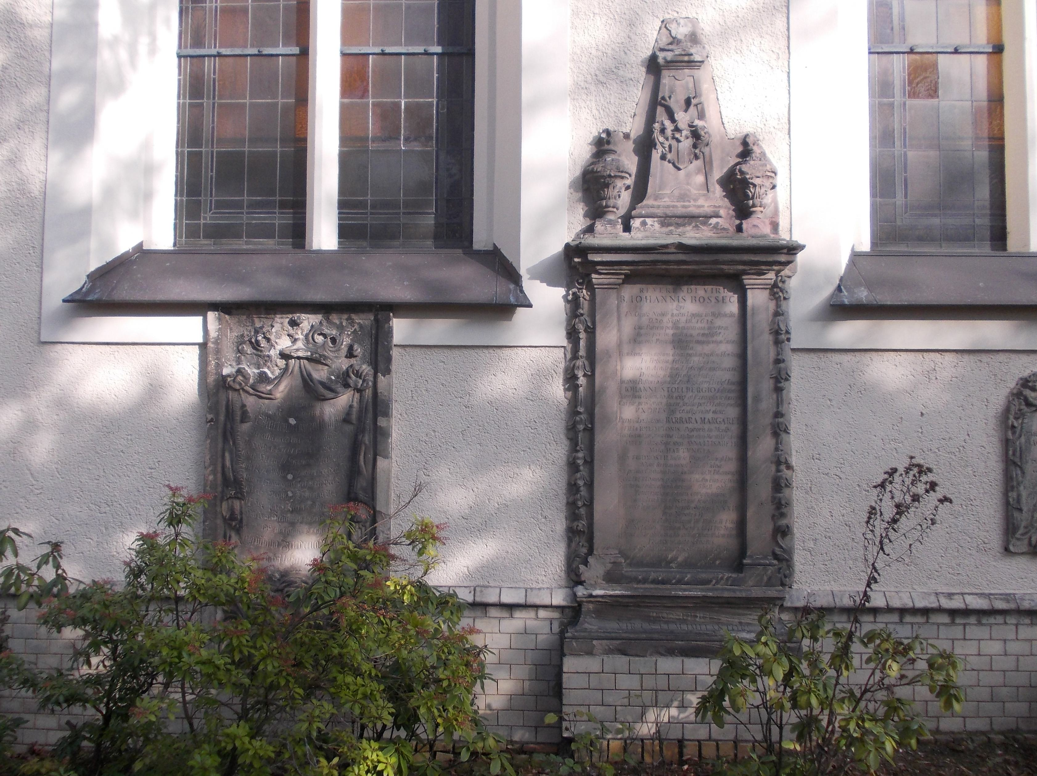 Martin Luther Church in Gautzsch (Markkleeberg, Leipzig district, Saxony)